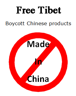 Free Tibet - Boycott Chinese products